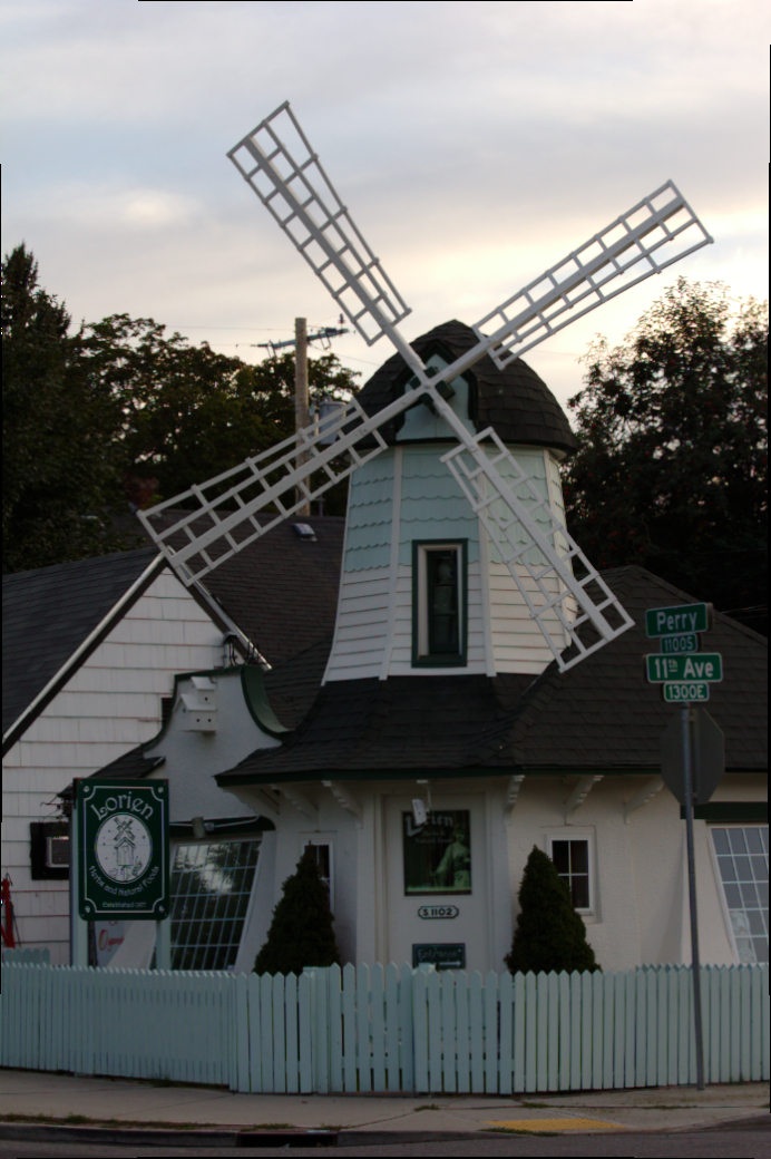 Cambern Dutch Shop Windmill, S. ll02 Perry